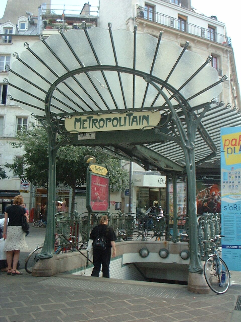 Paris Métro, exit “Place Sainte-Opportune” at the Châtelet station. A typical metro entrance by the architect Hector Guimard.